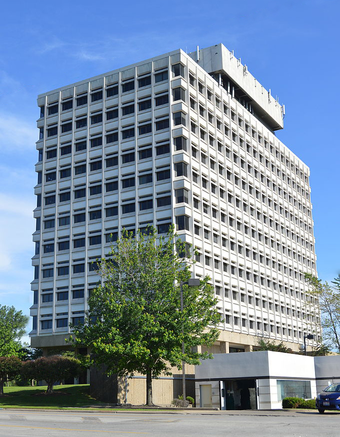 Western and northern sides of Tower East, located at 20600 Chagrin Boulevard in Shaker Heights, Ohio, United States. Built in 1969, it is listed on the National Register of Historic Places.